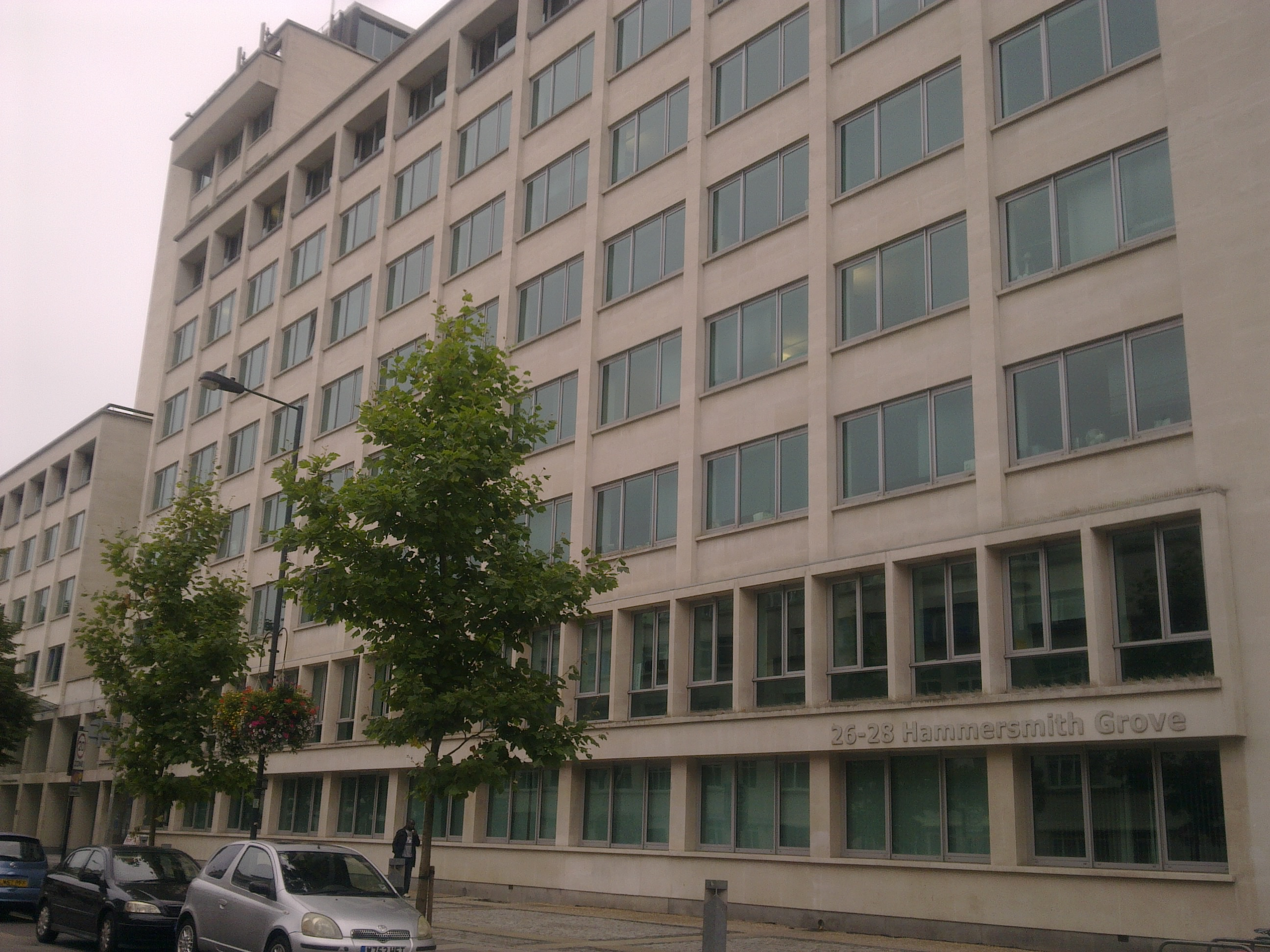 This is a photo of the building housing the Embassy of Tajikistan in London, UK